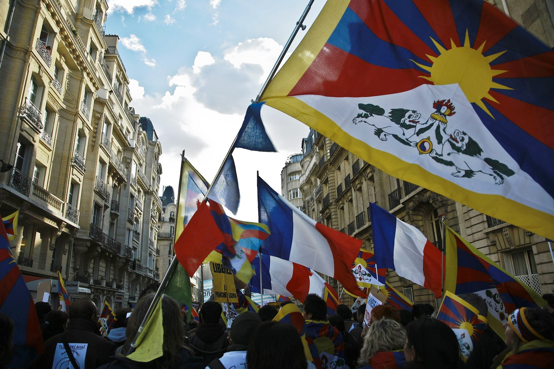 FREE TIBET -mars 2008 - Paris